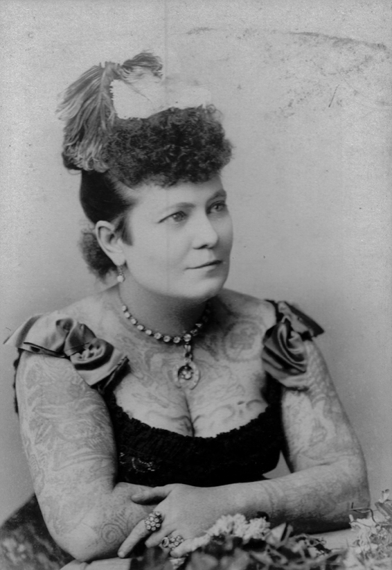 Nora Hildebrandt albumen photograph ca. 1880